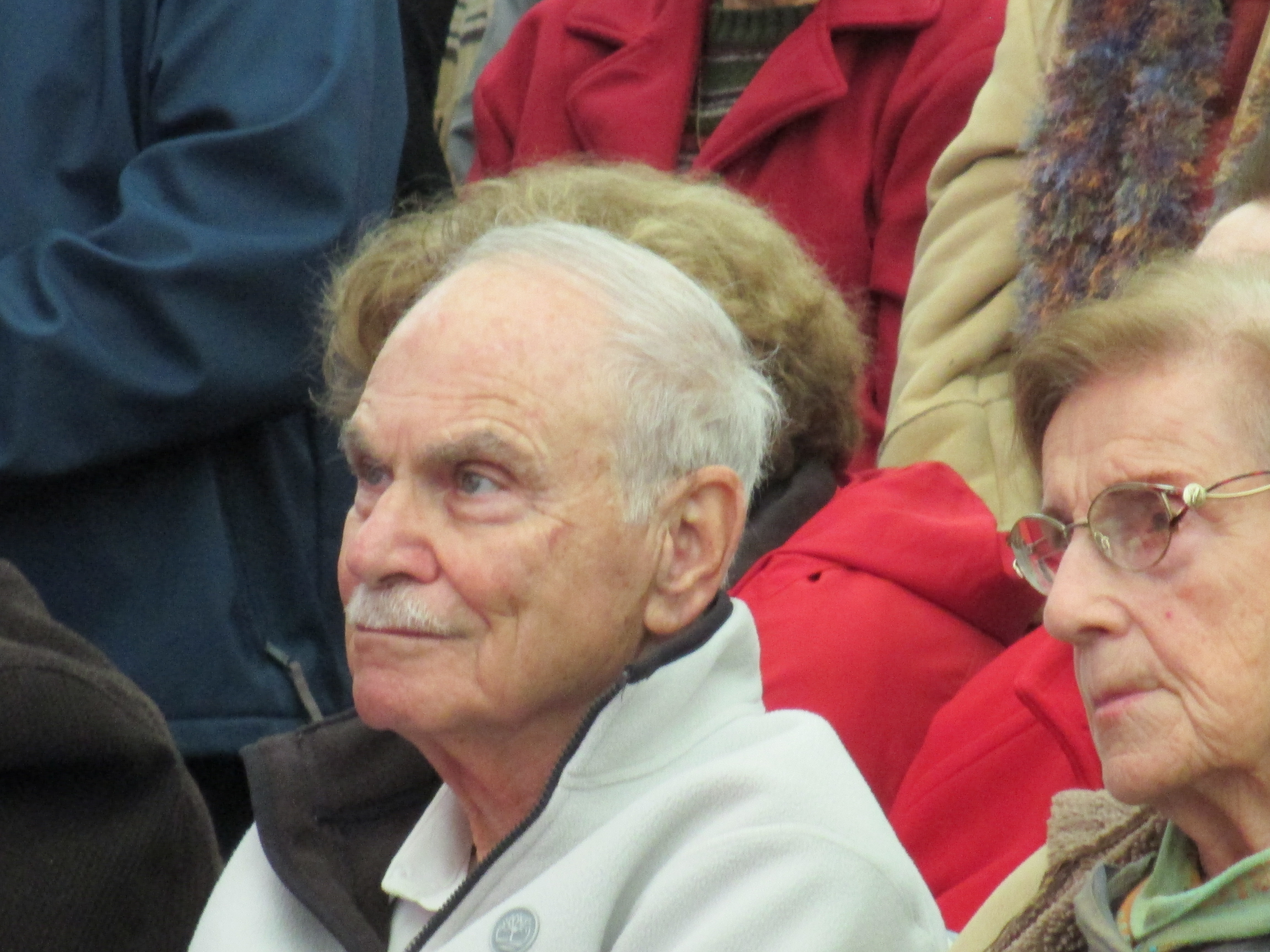 former m.k. adi amorai ח"כ לשעבר עדי אמוראי